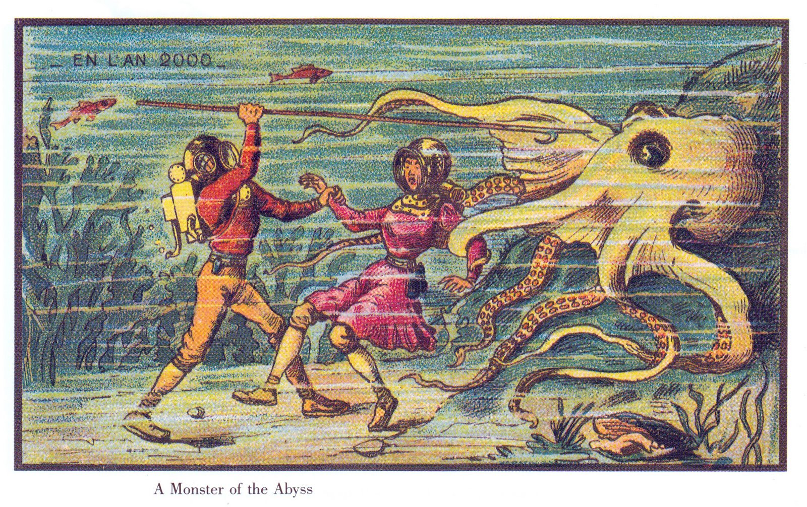 France in 2000 year (XXI century). Sea monster. France, paper card by Jean-Marc Côté.